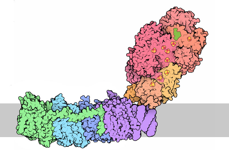 Respiratory Complex I. The grey colour represents inner mitochondrial membrane. Top - mitochondrial matrix, bottom - intermembrane space.